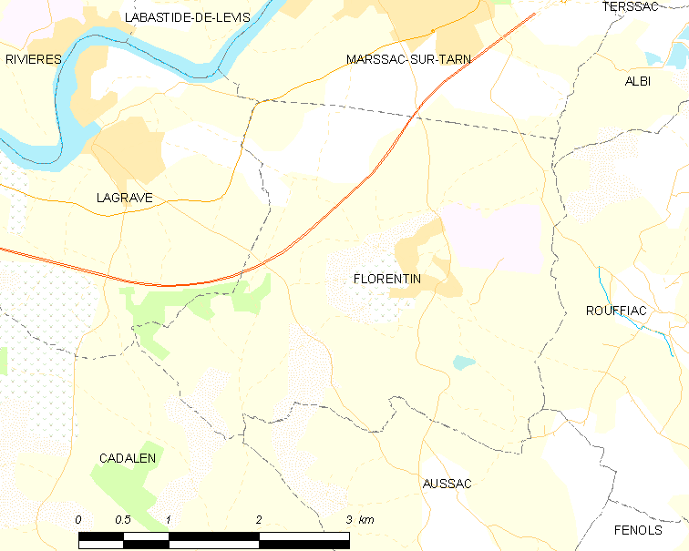 Map of French municipality Florentin